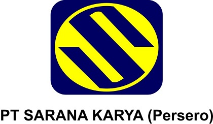 Anak Usaha WIKA